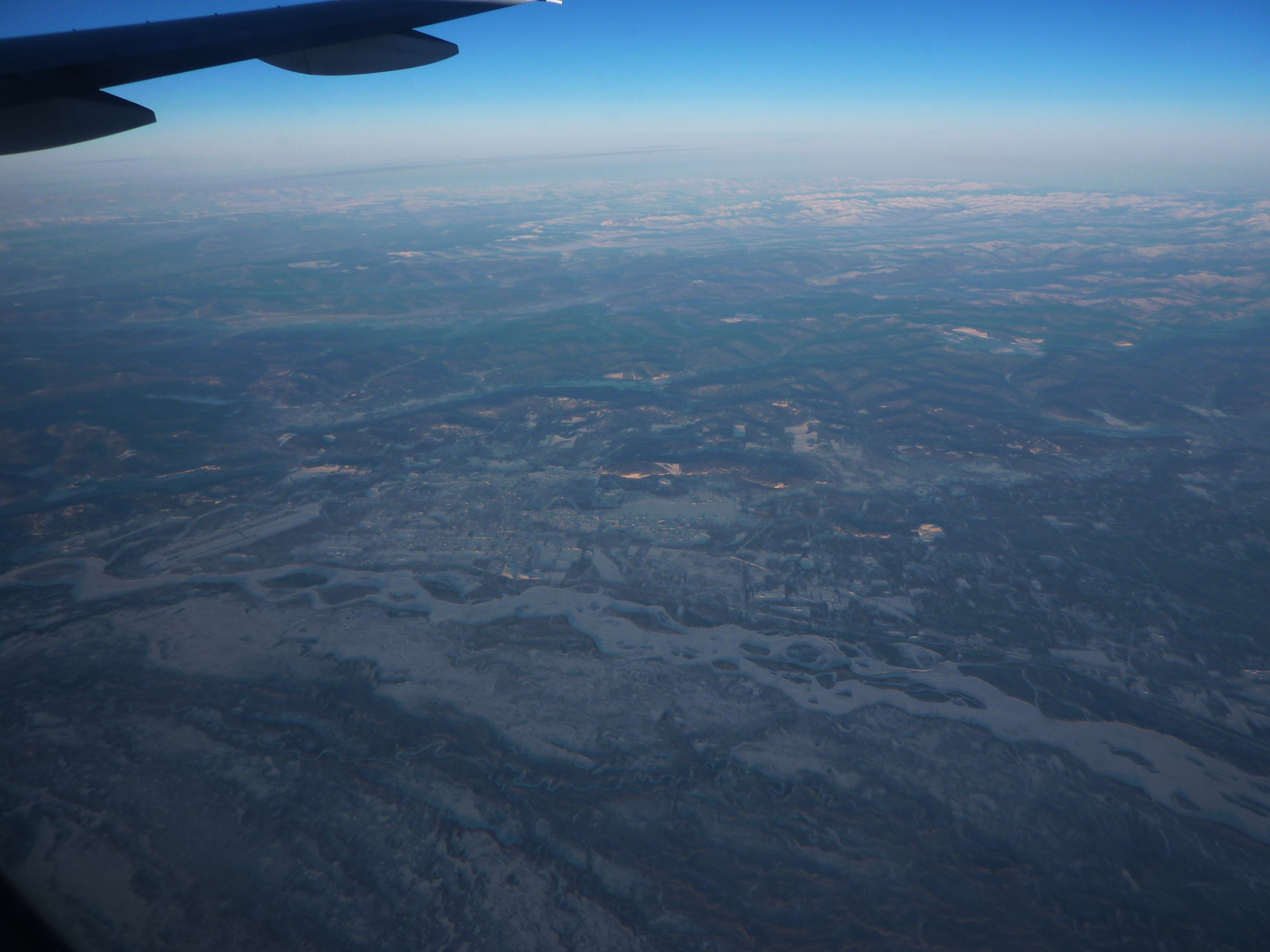 Aerial view of Fairbanks, Alaska, and the Tanana River. Seen from a non-stop AA flight Chicago-Beijing. Fairbanks Airport is in center left.